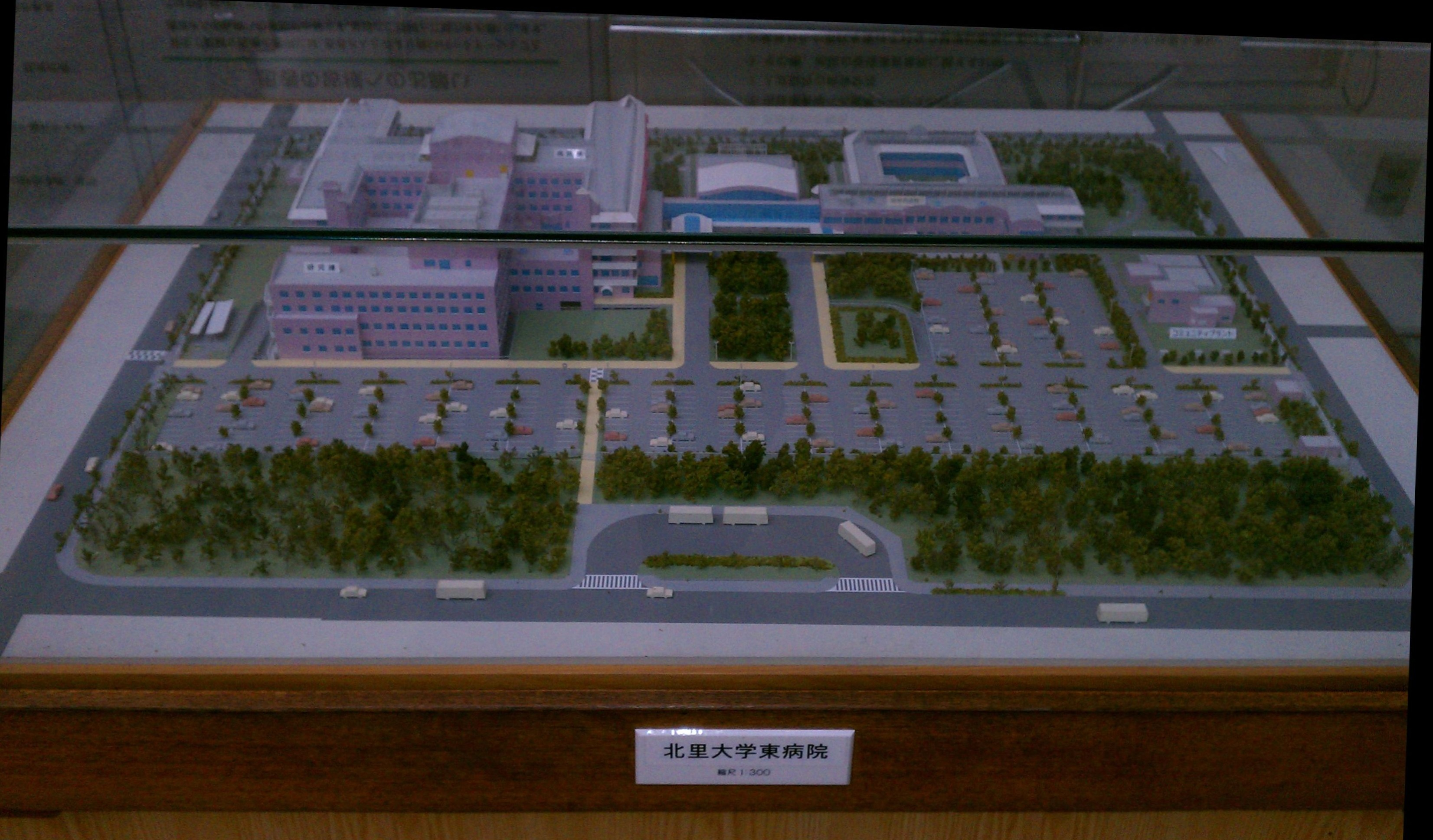 Kitasato University East Hospital model